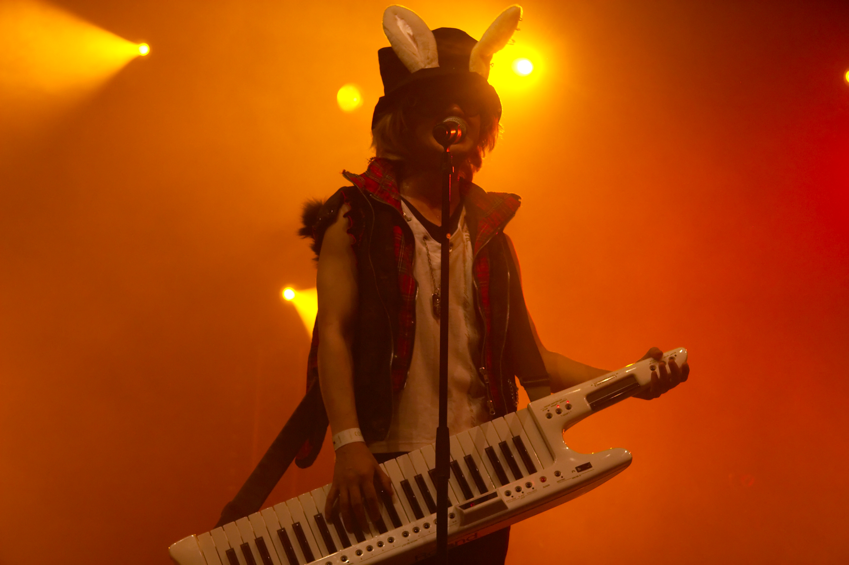 Mosaic.wav live at Japan Expo 2009 (Paris, France).